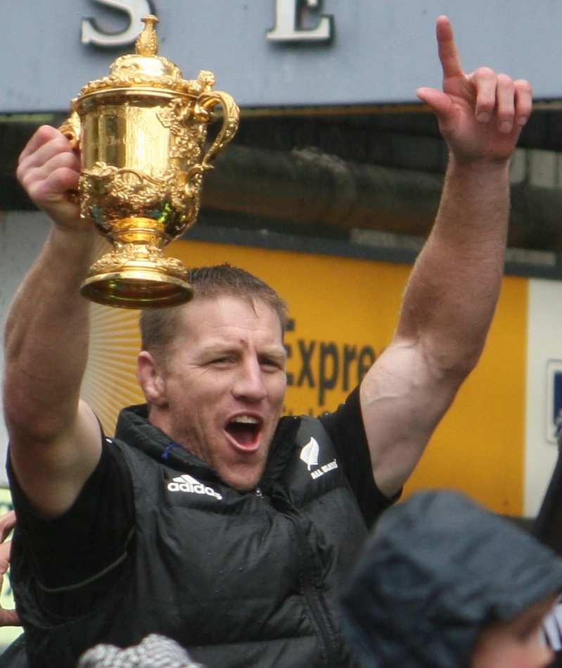 New Zealand rugby union player Brad Thorn at the Wellington Rugby World Cup 2011 Victory Parade